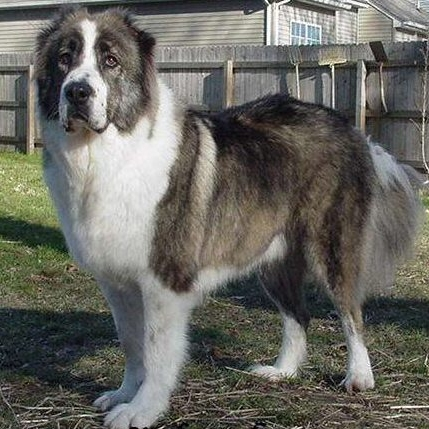 This is a Caucasian Ovcharka, Vertesakji Favorit Arnold affectionately known as Caesar. Caesaser is owned by Garfield and Nicol Sicard and lives in Suffolk, VA. You are free to use this picture. See more at